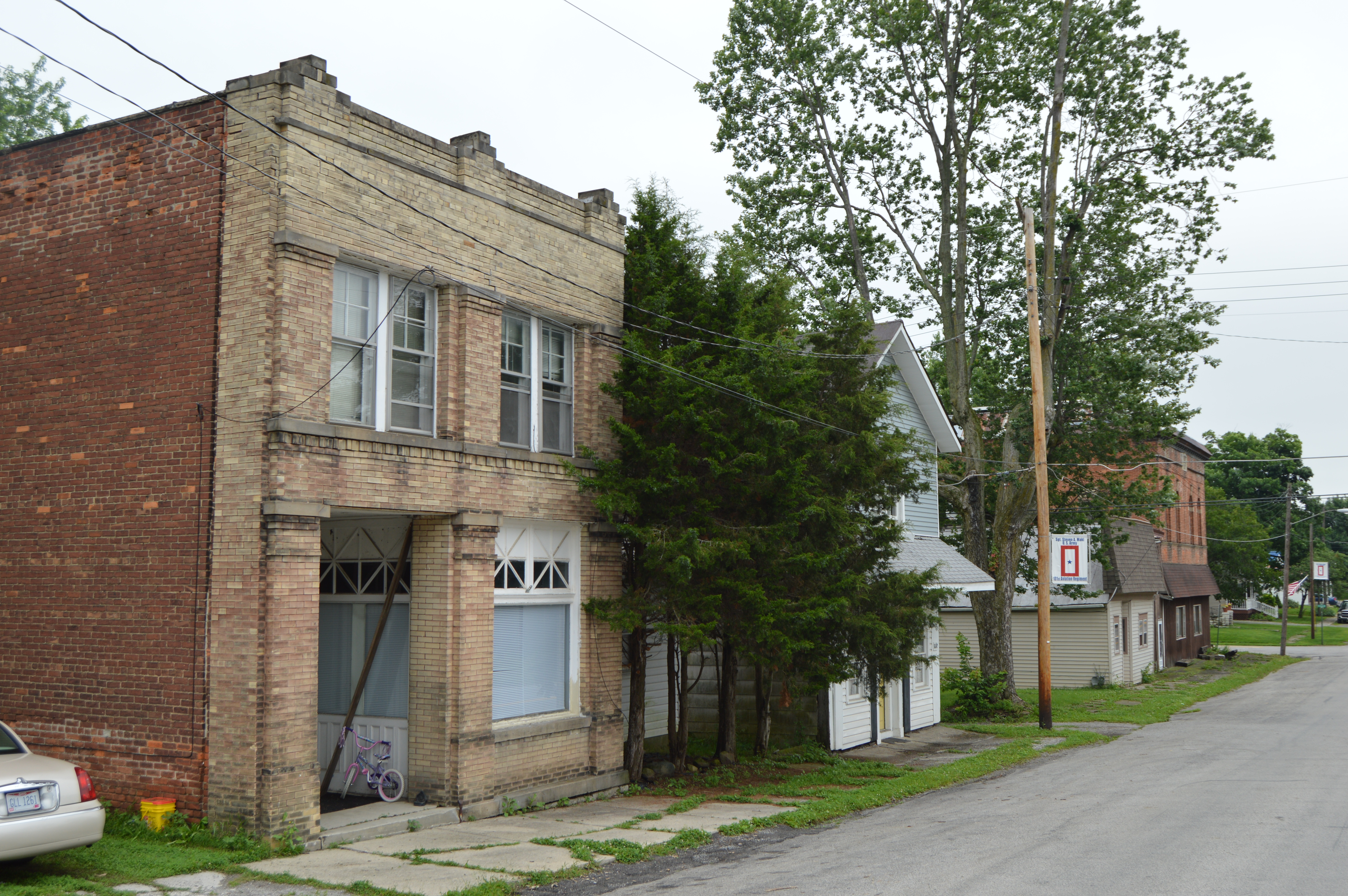 Buildings on the western side of High Street, south of the Sugar Street junction, in Lafayette, Ohio, United States.